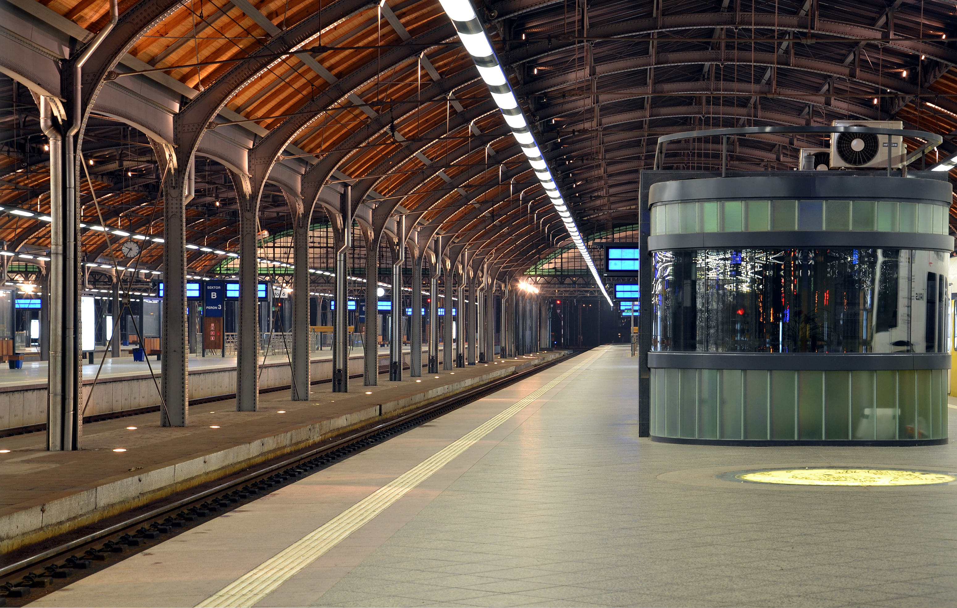 Wrocław Główny (to 1945 Breslau Hauptbahnhof) by night